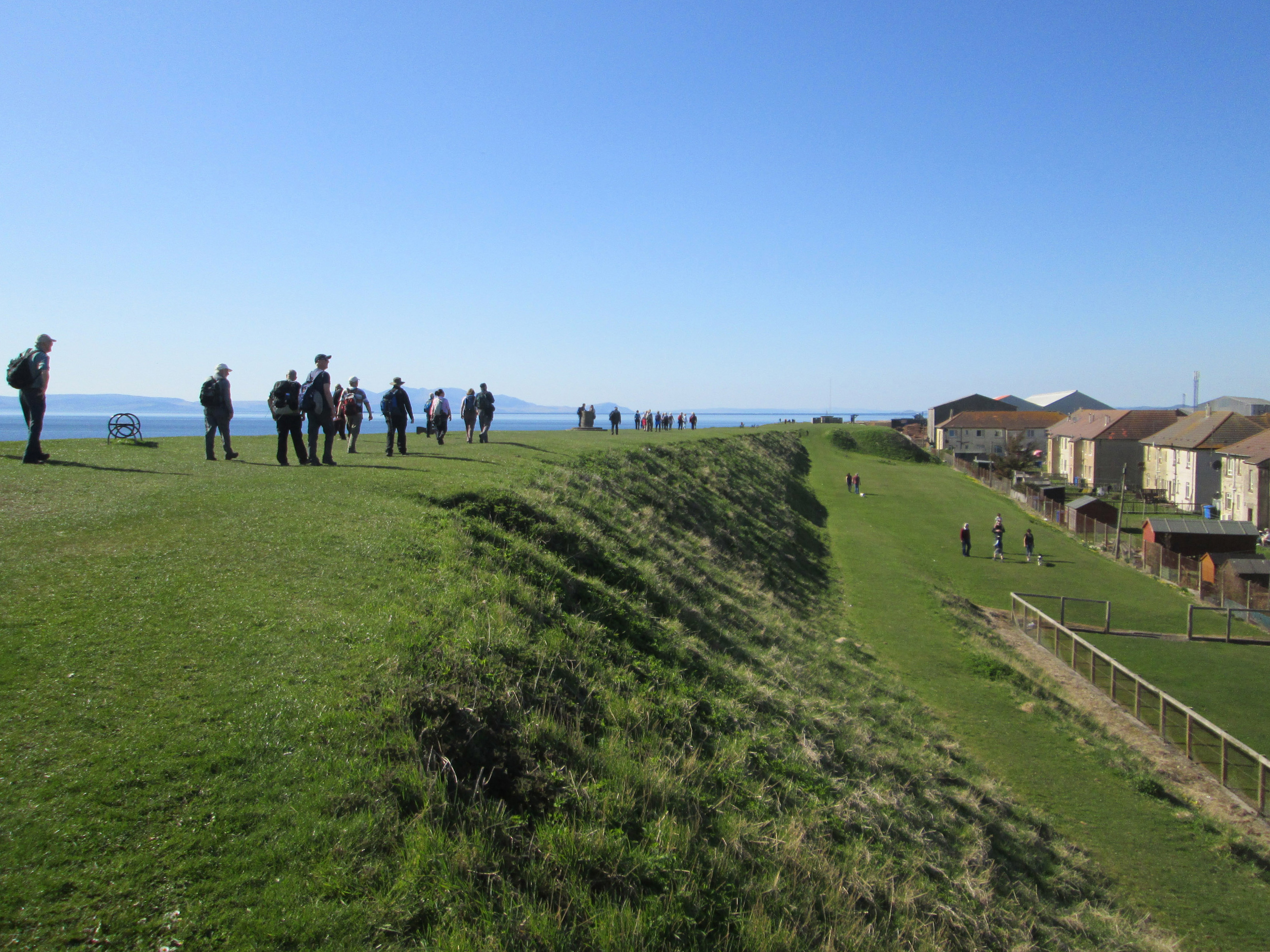 The Ballast bank at Troon was constructed to shelter the harbour: it overlooks houses and the sawmill of Adam Wilson & Sons Ltd, Harbour Road, Troon, KA10 6DG. The Isle of Arran can be seen in the distance, over the Firth of Clyde